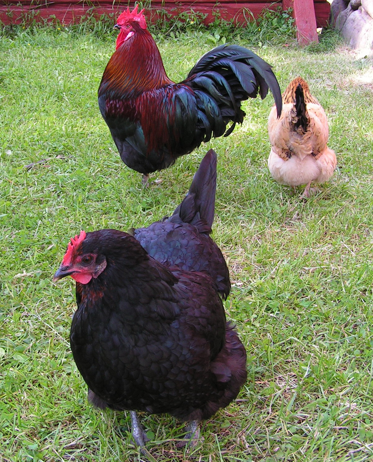 Hedemorahöns. Old breed of chickens from Hedemora, Sweden. Photo taken at Gammlia, Umeå, Sweden.